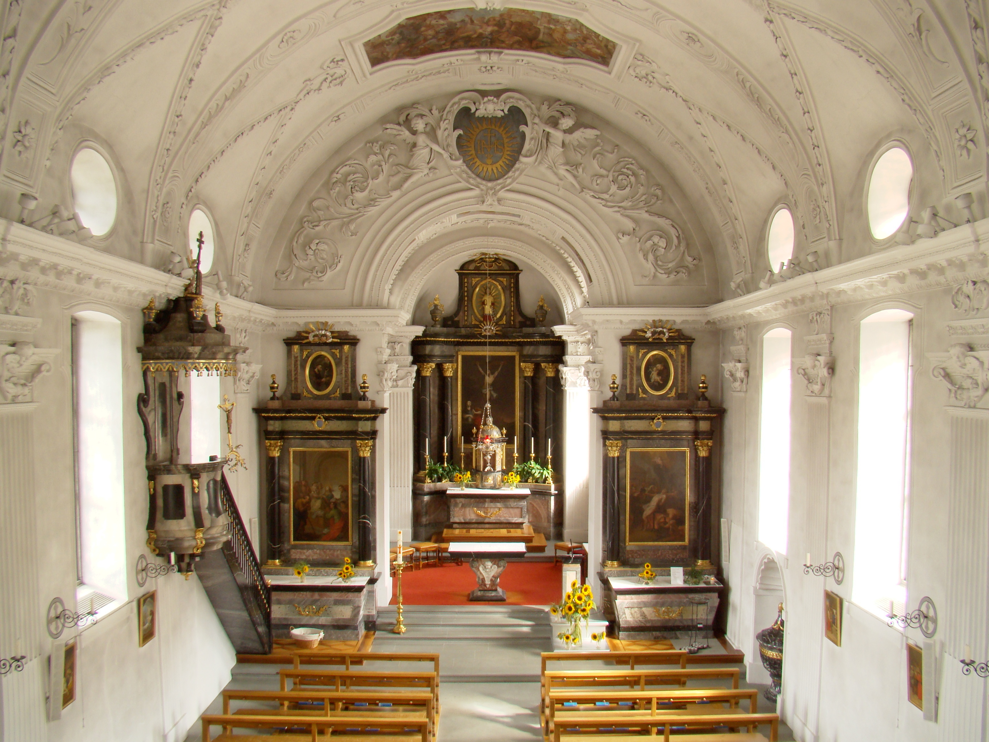 Dallenwill, catholic parish church of St. Laurentius